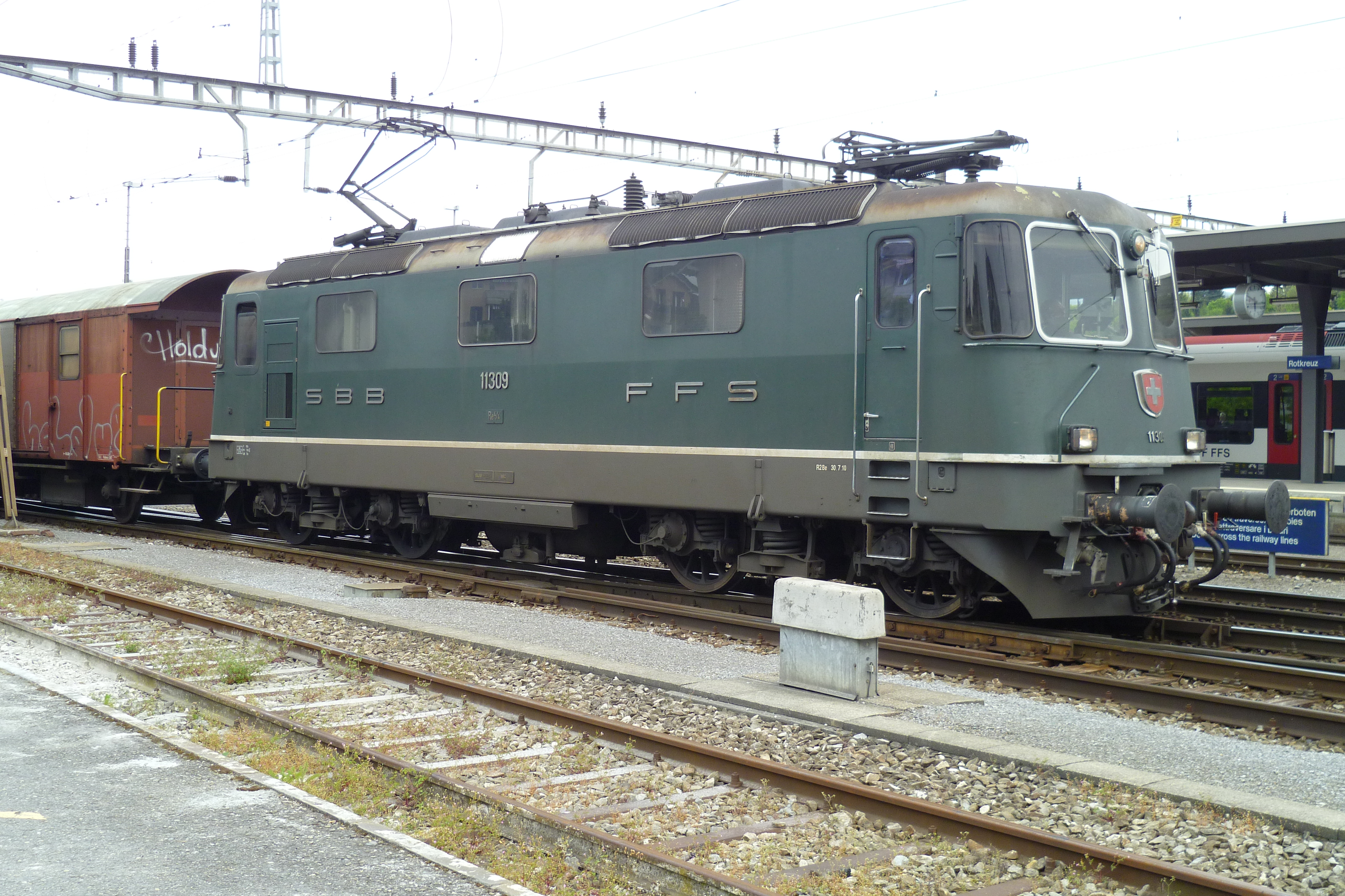 Rotkreuz train station SBB Re 4/4 II 11309 of last series (see integrated rear view mirror as at Re 6/6), already equipped with air conditioner, but still in old green livery.